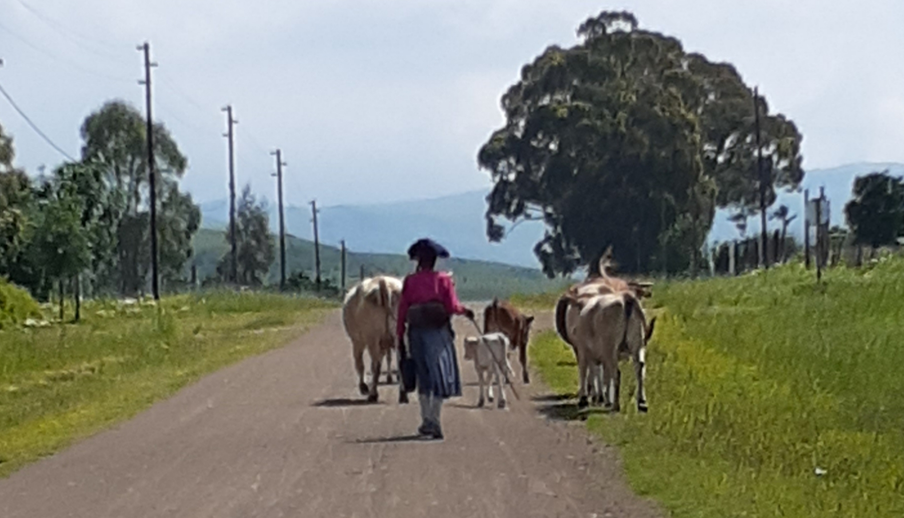 In many African countries, cattle are a vital and beloved part of the household. This is an image with the theme "Africa on the Move or Transport" from: South Africa